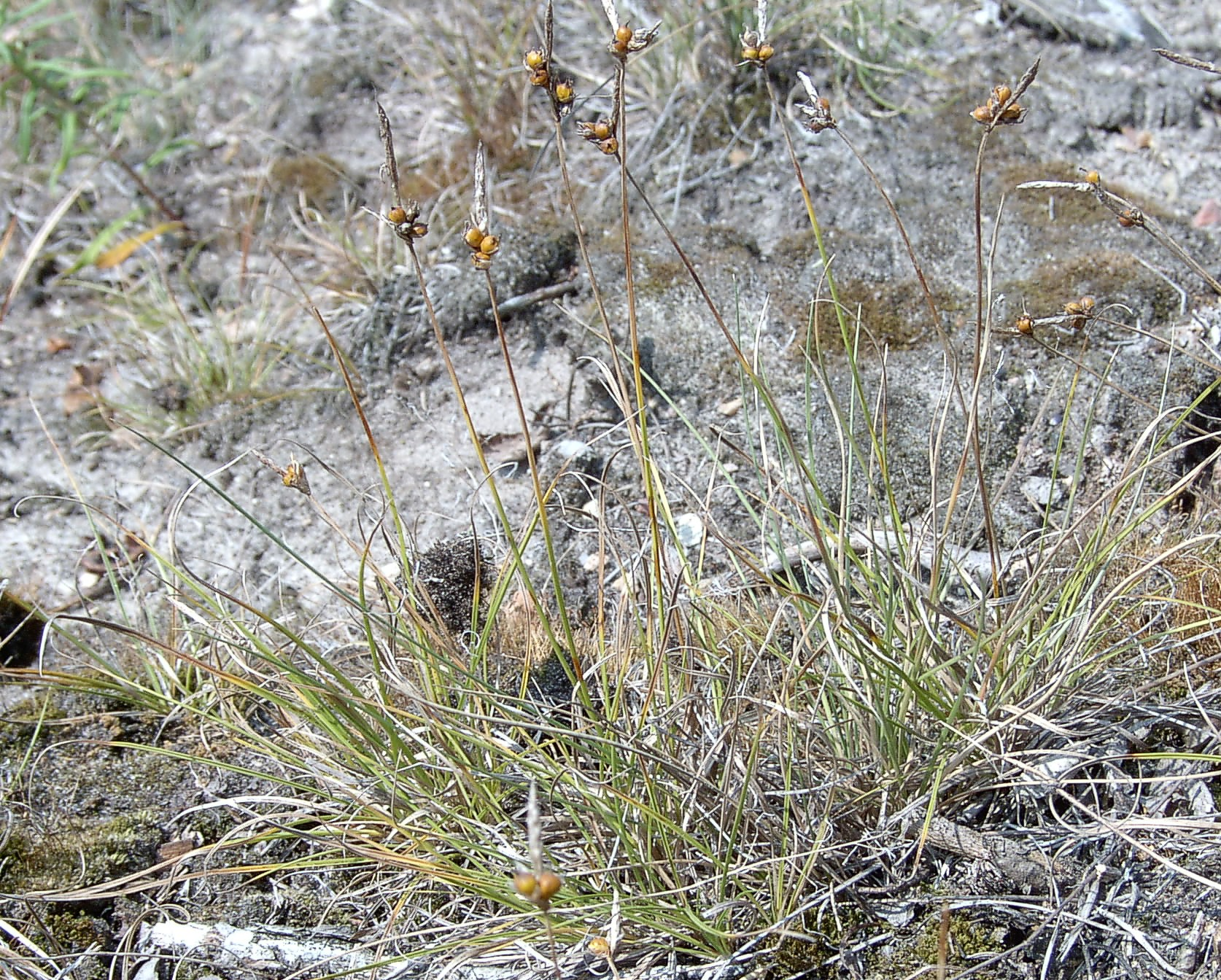 Carex supina on xerotermic grassland on Odra river valley slopes near Cedynia (NW Poland)